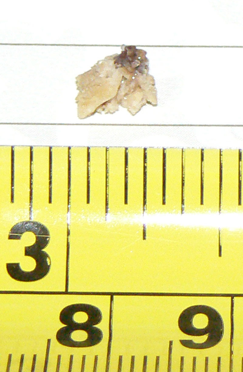 Kidney Stone that I passed naturally, albeit painfully.